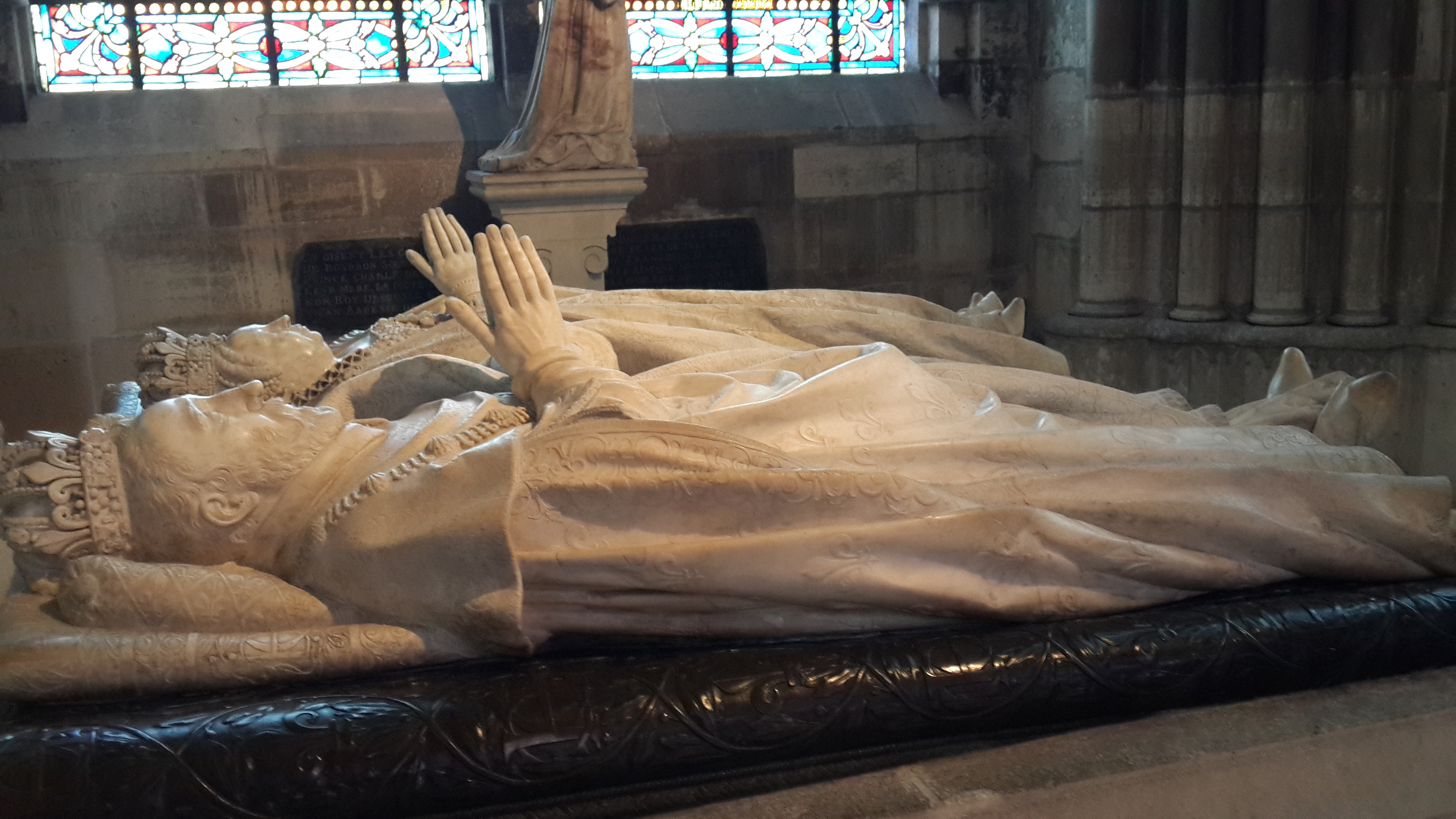 Funerary statues of Henry II of France and Catherine de' Medici-Basilique de Saint-Denis